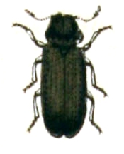 Oligomerus brunneus, from Calwer's Käferbuch, Table 29, Picture 3. Taxonomy was updated to 2008, using mostly the sites Fauna Europaea and BioLib. Please contact Sarefo if the determination is wrong!